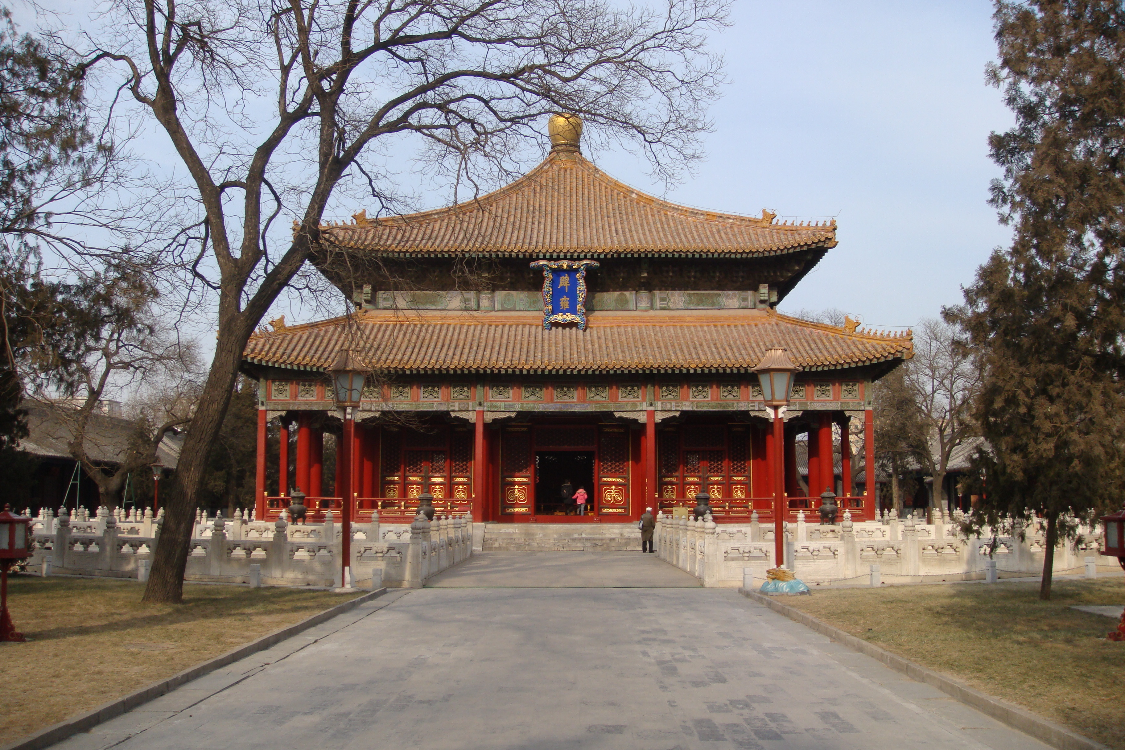 The Guozijian in Beijing, China.